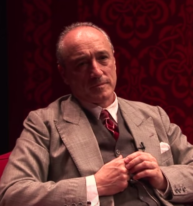 Spanish Actor Roberto Álvarez